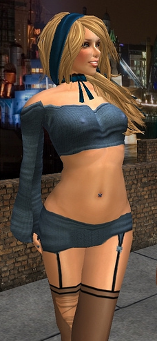 As I expected, like a moth to a flame, an admirer soon began chatting me up. * see a larger image * * join Sexy T-Girls of Second Life * * view my "safe" flickr stream *